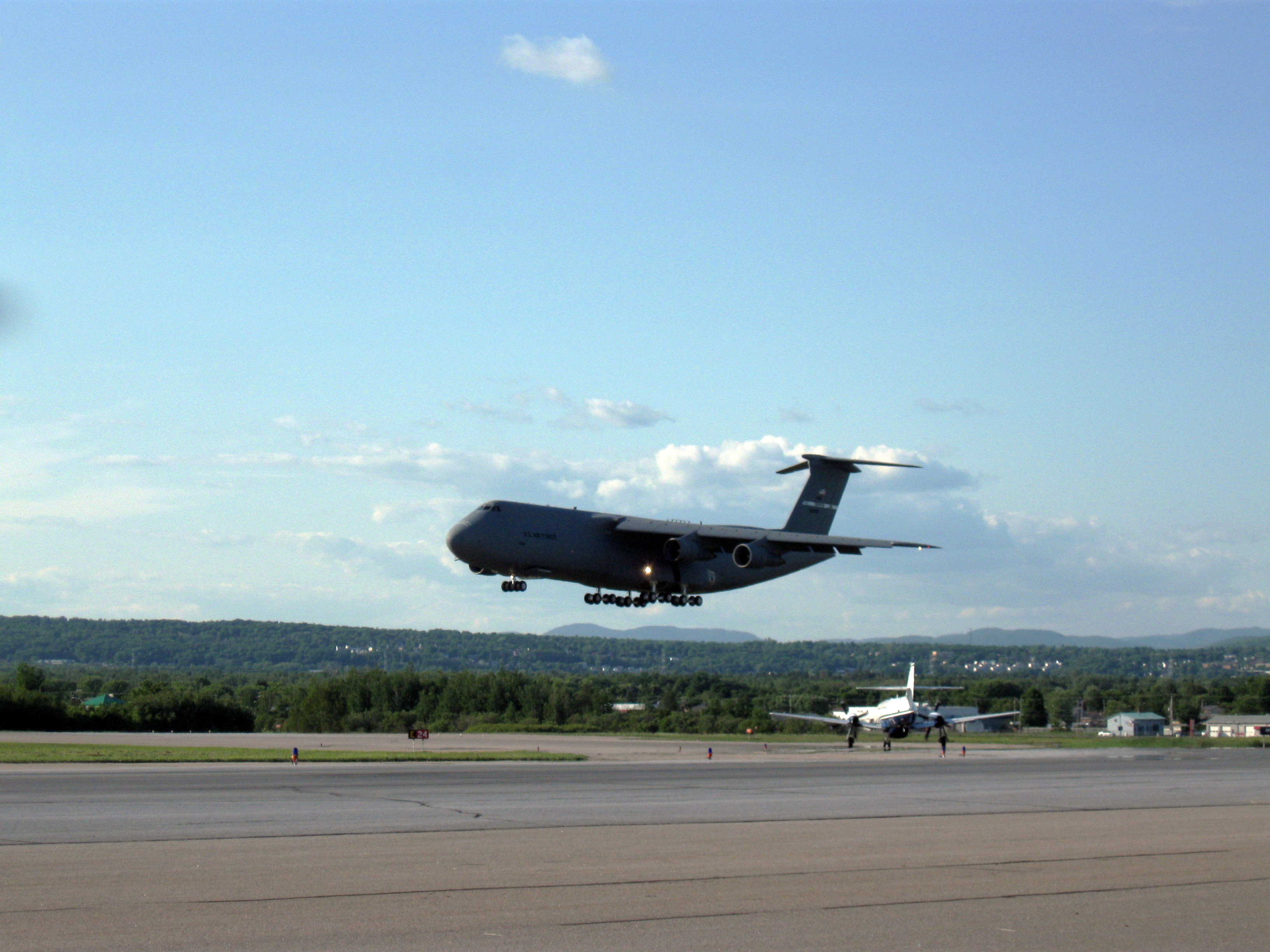 The giant strategic airlifter coming to land on a civilian airport.